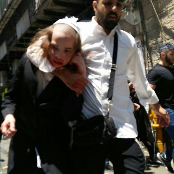 A disguised Israeli police officer arresting a child who was protesting against the recruitment of Haredim. June 2017